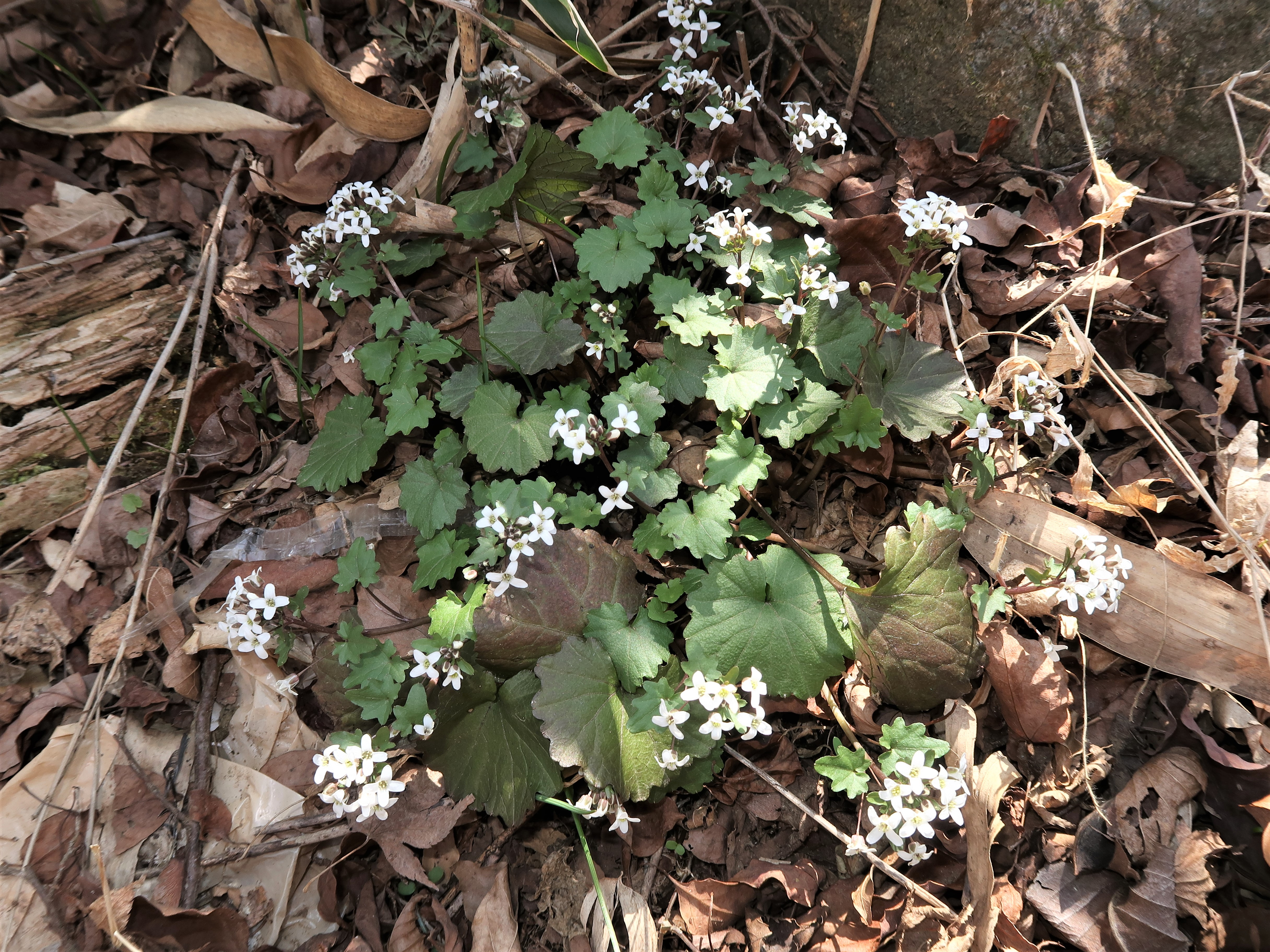 Eutrema tenue, Mount Tsukuba-san, Ibaraki pref., Japan